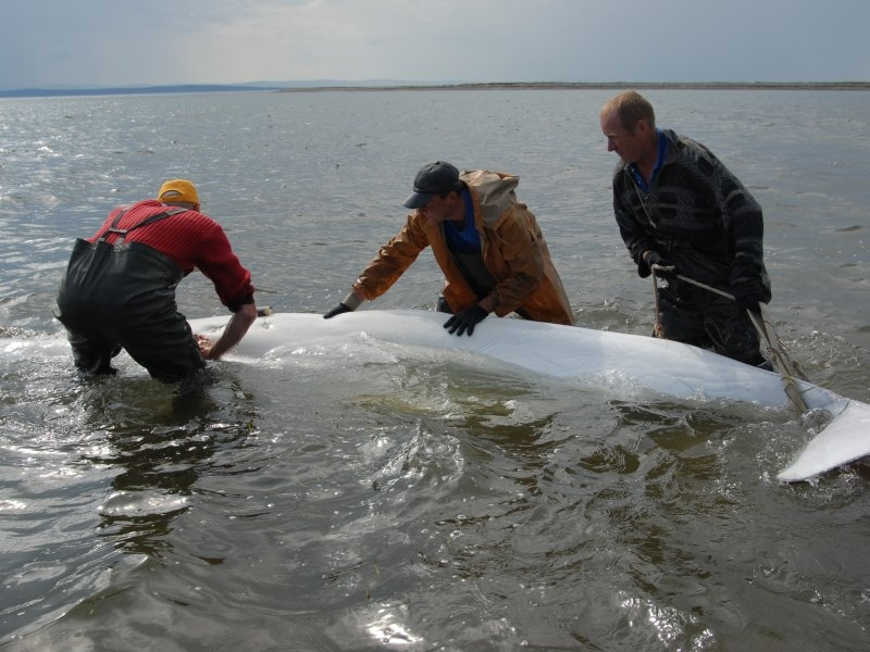 Scientists working on the White Whale Programme place transmitters onto white whales